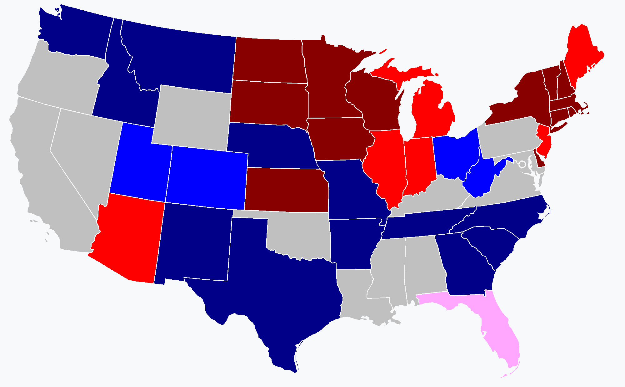 A map showing the results of the 1916 United States Gubernatorial elections